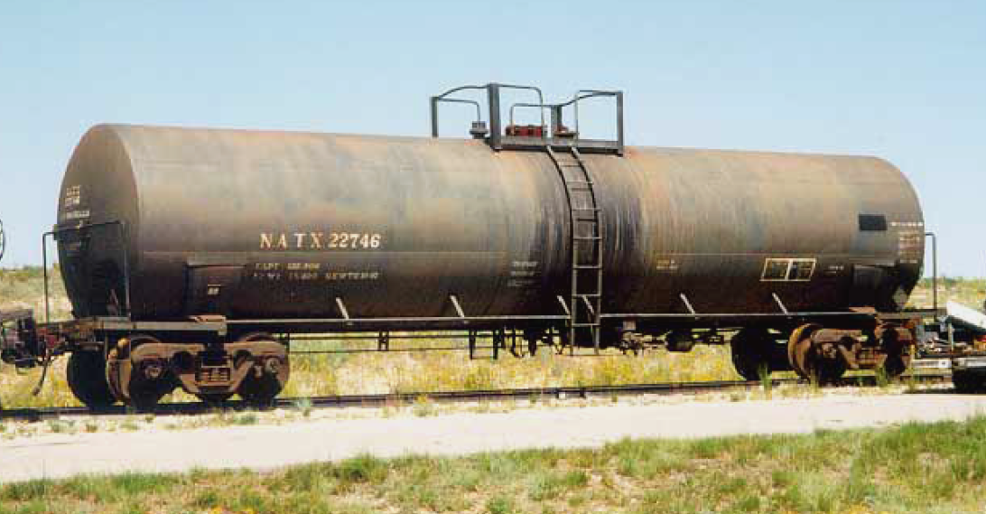 Test Car NATX 22746 Upon Arrival at Transportation Technology Center, Inc., Pueblo, Colorado.